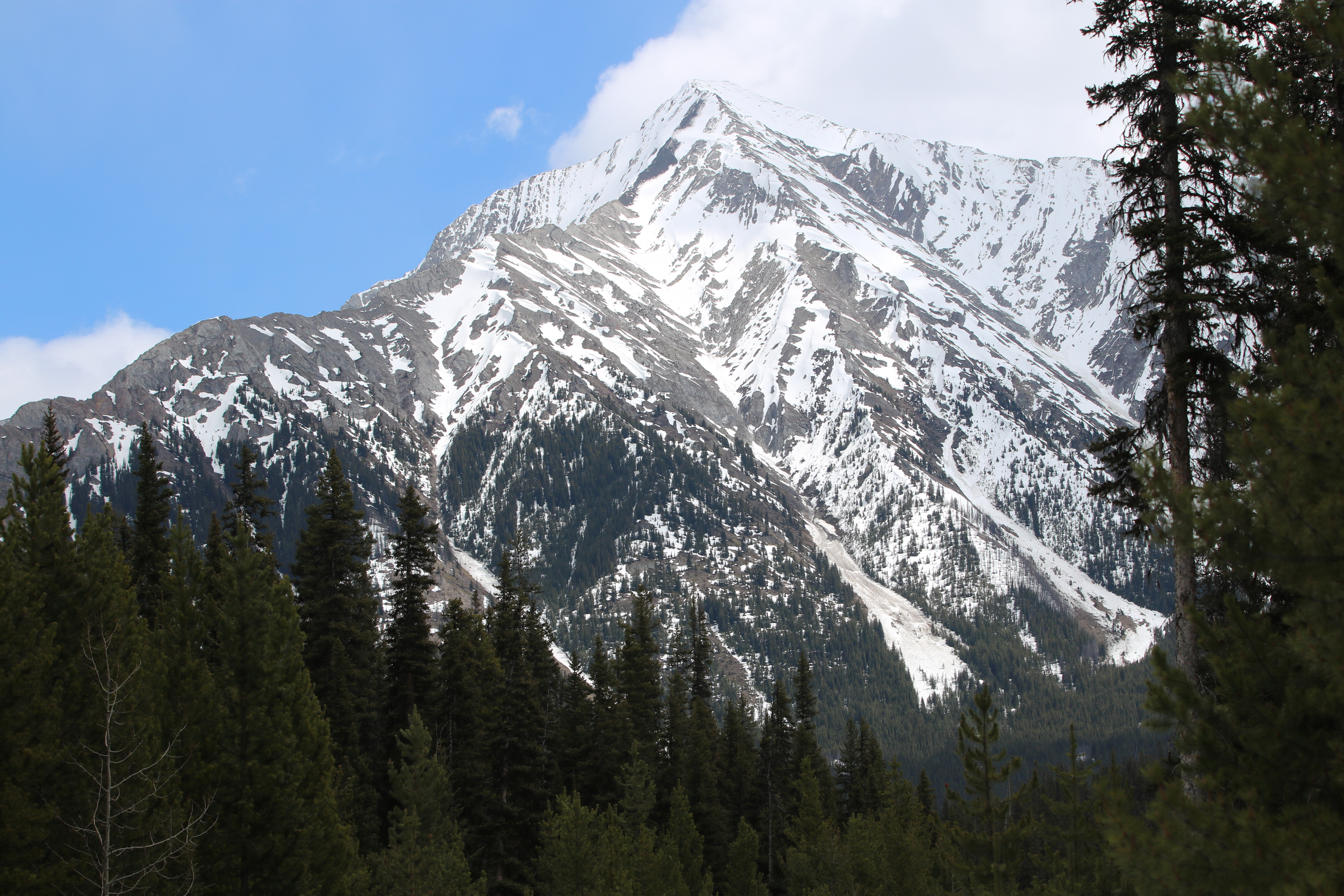 The sun did come out for a few moments on the Watridge lake hike but not for long it soon vanished behind the clouds again.